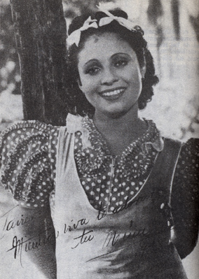 photograph of Rita Montaner taken during the shooting of film El romance del plamar; she in costume.